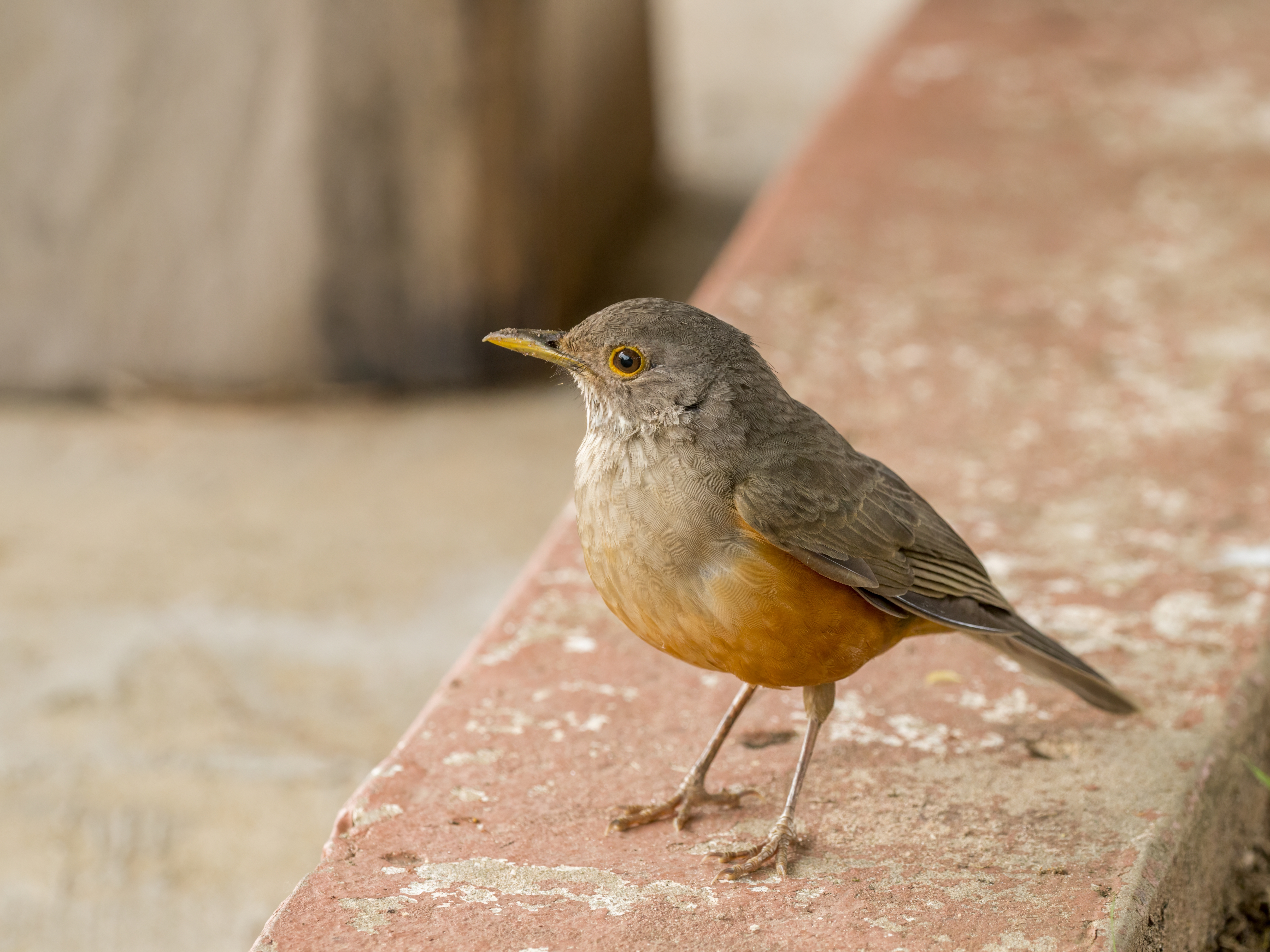 Rufous-bellied thrush, 'the robin' (Turdus rufiventris), the Pantanal, Brazil